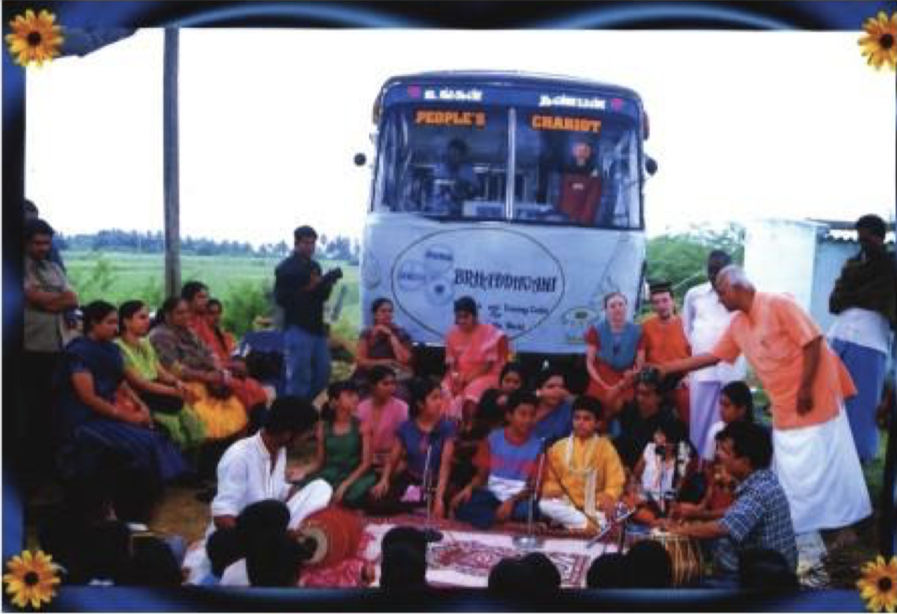 Subramanian presenting a music program for the children of Vilvarini.